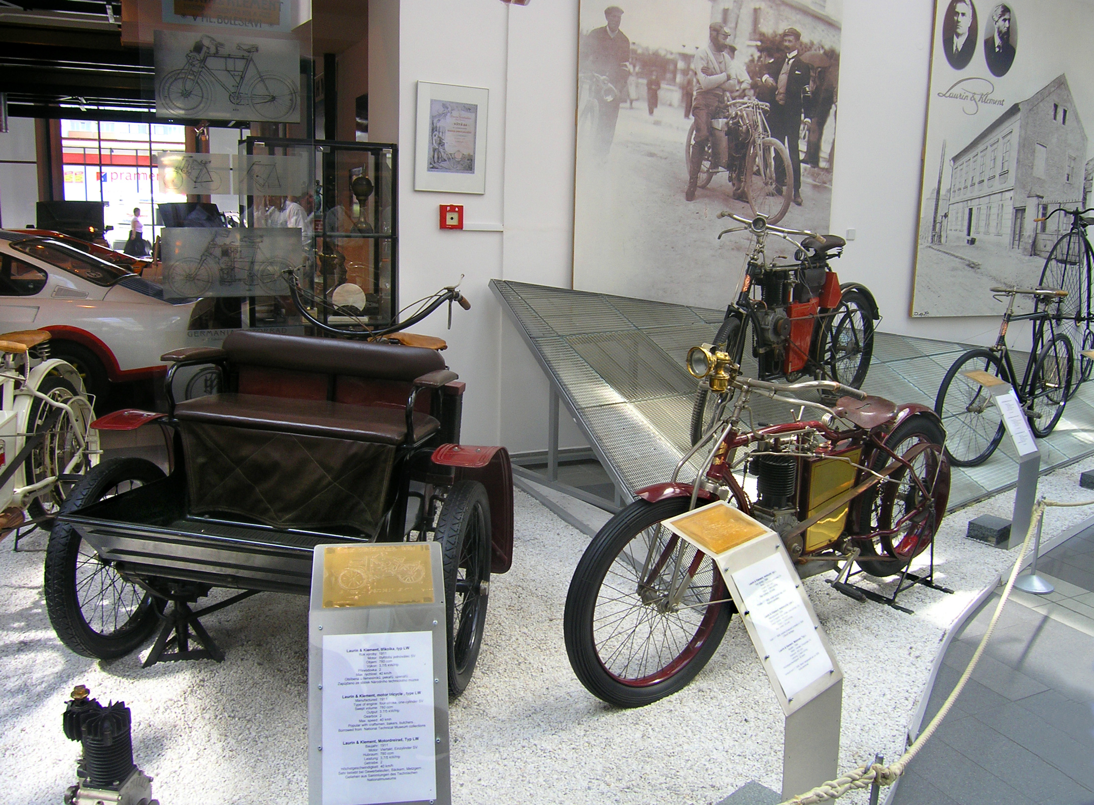 Škoda museum in Mladá Boleslav, Czech Republic